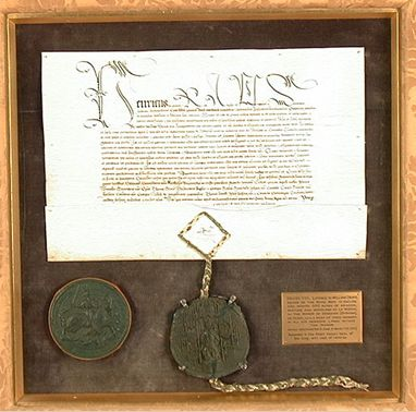 Dyrham Royal Licence to Empark, dated 5th. June 1511. Granted by King Henry VIII to Sir William Denys(d.1533) of Dyrham, Glos., Esquire of the Body.